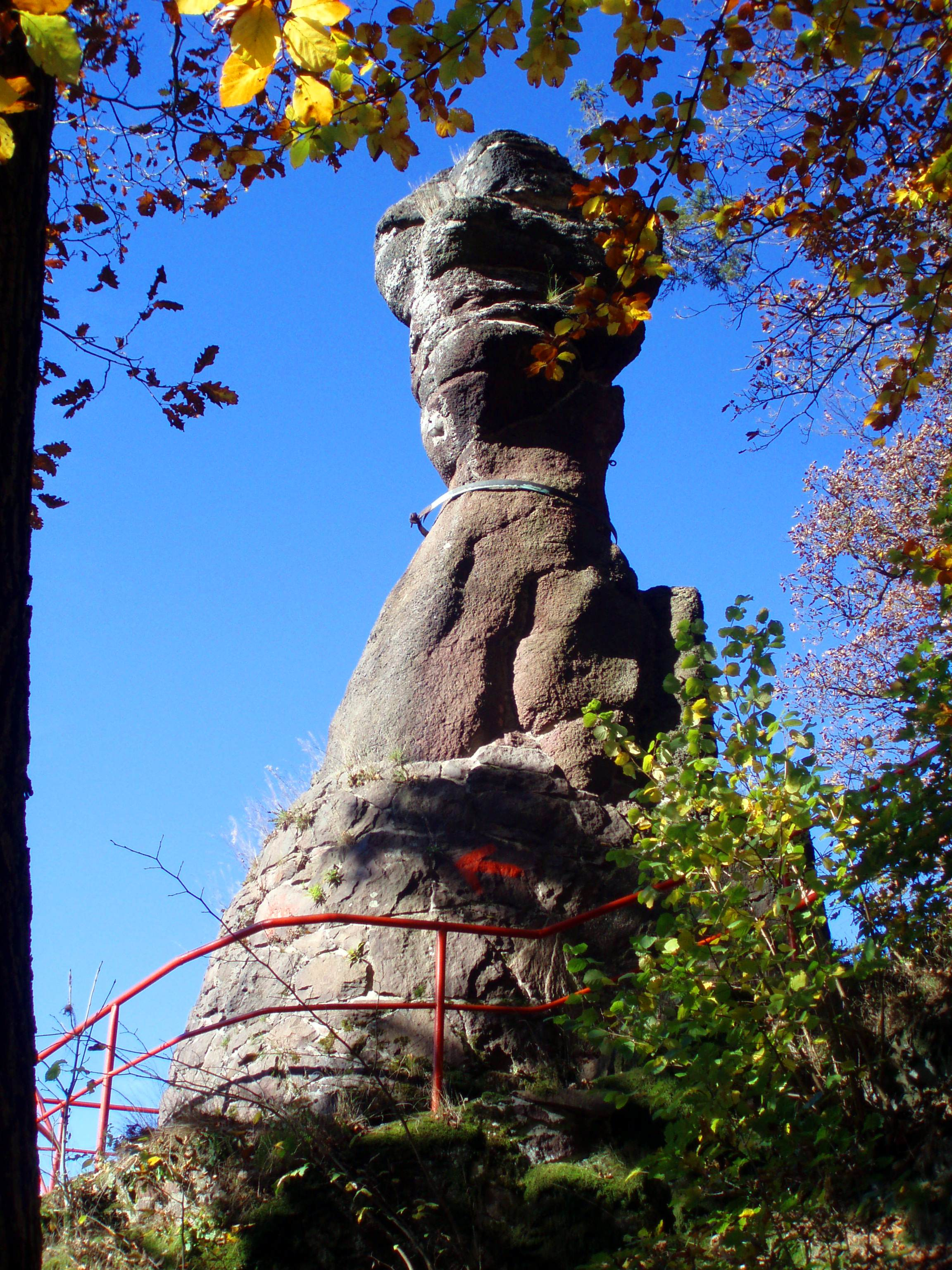 The Gänseschnabel, a rock formation in the Harz Mountains of Germany